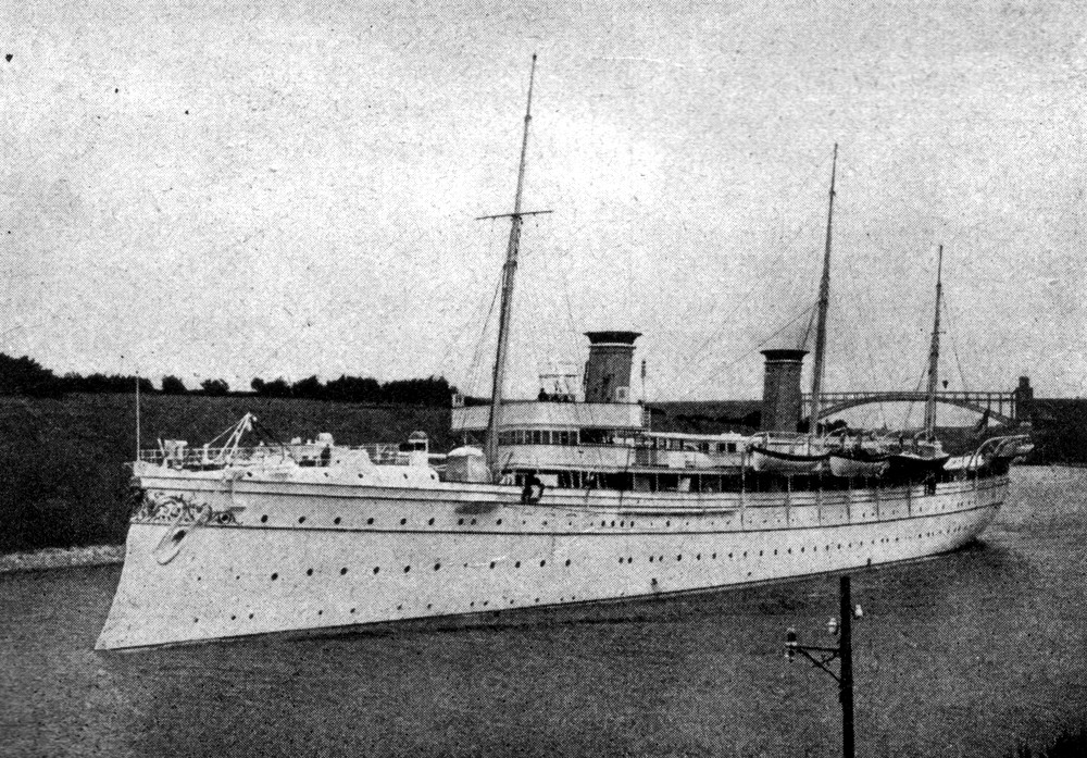 The SMY Hohenzollern (launched 1892) in 1902.